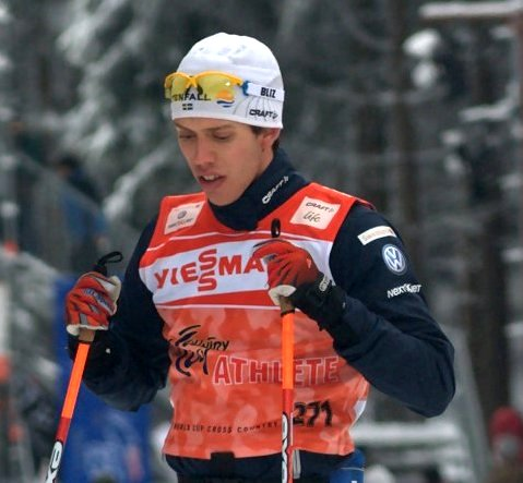 Marcus Hellner at the Tour de Ski 2010 in Oberhof